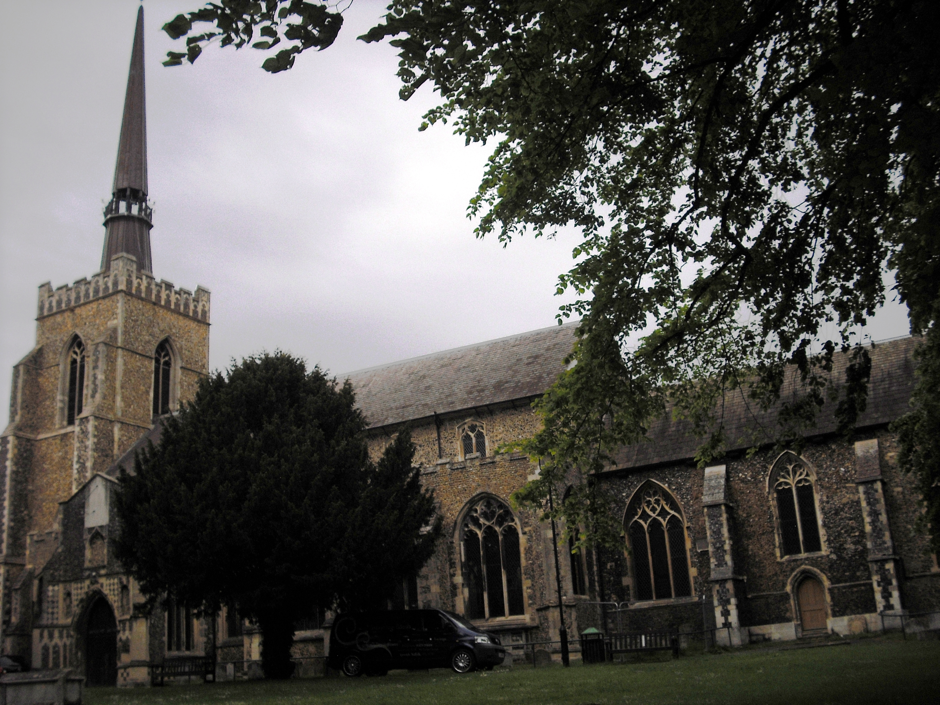 St Peter and St Mary's church, Stowmarket, Suffolk - from south